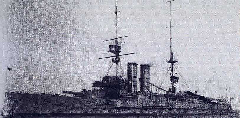 HMS Commonwealth (1903) in 1907-1908